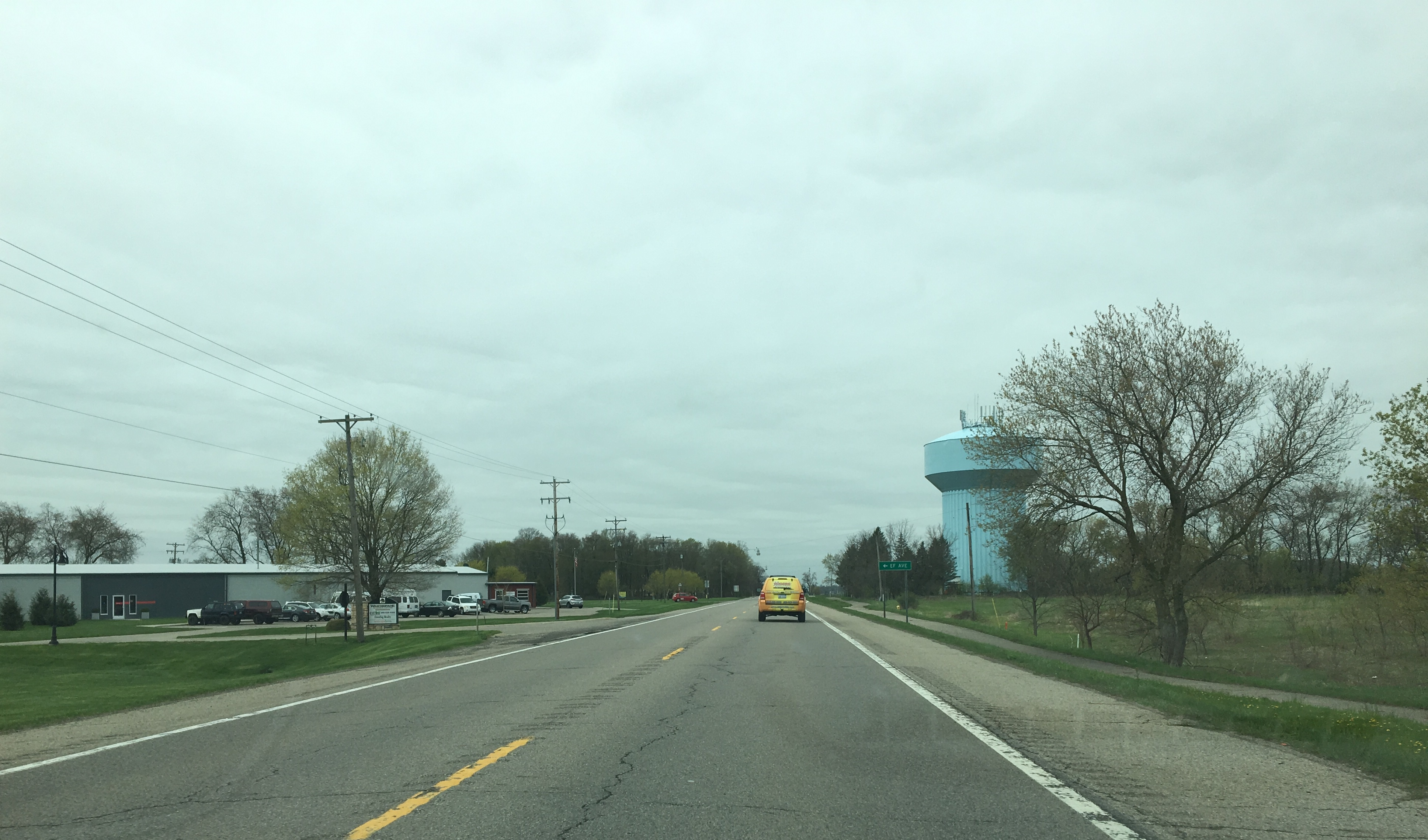 M-343, Richland, Michigan, United States, May 2019